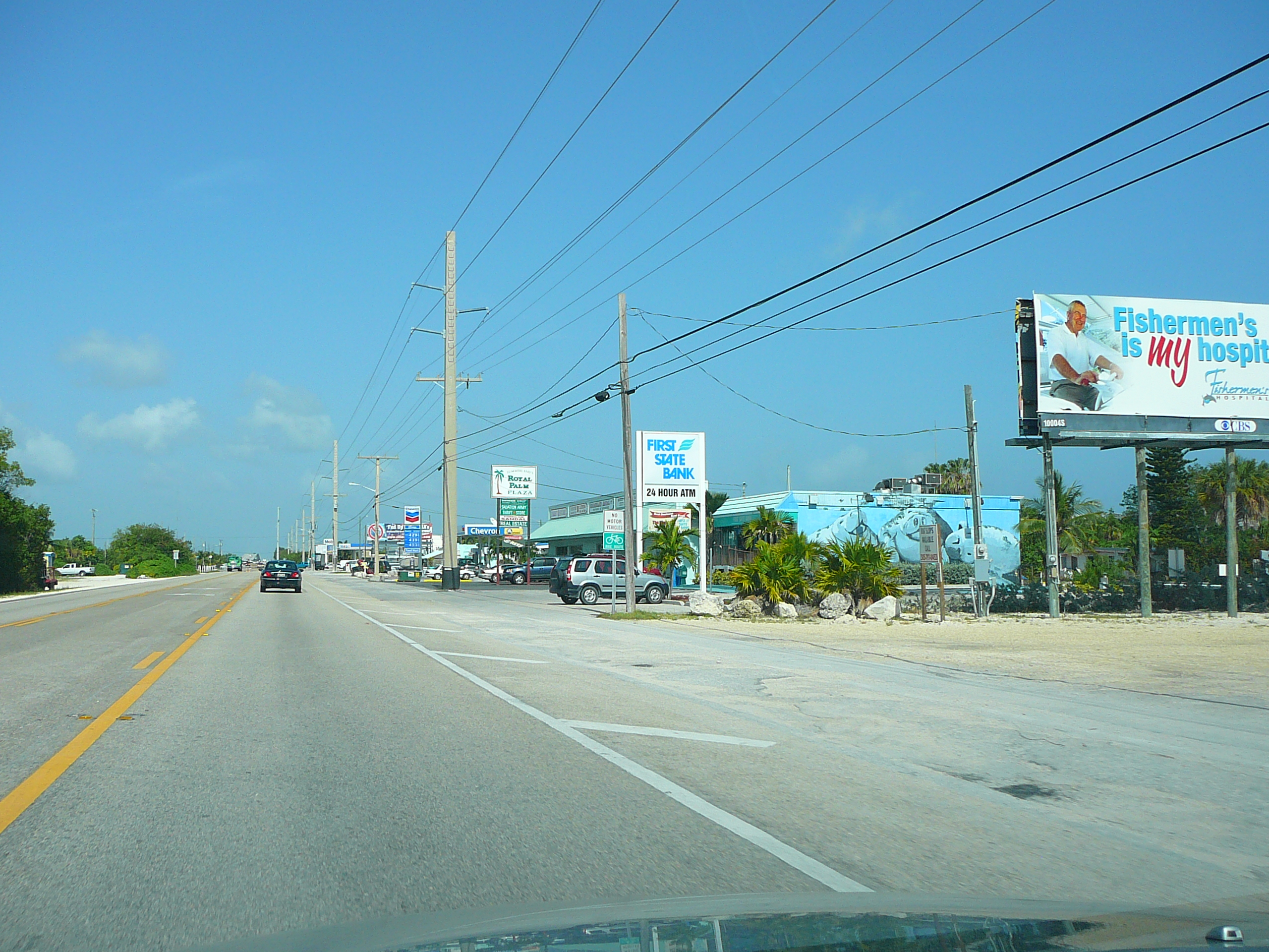 Digital photo taken by Marc Averette. Summerland Key in the Florida Keys